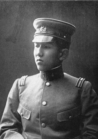 Kashiwa Oyama